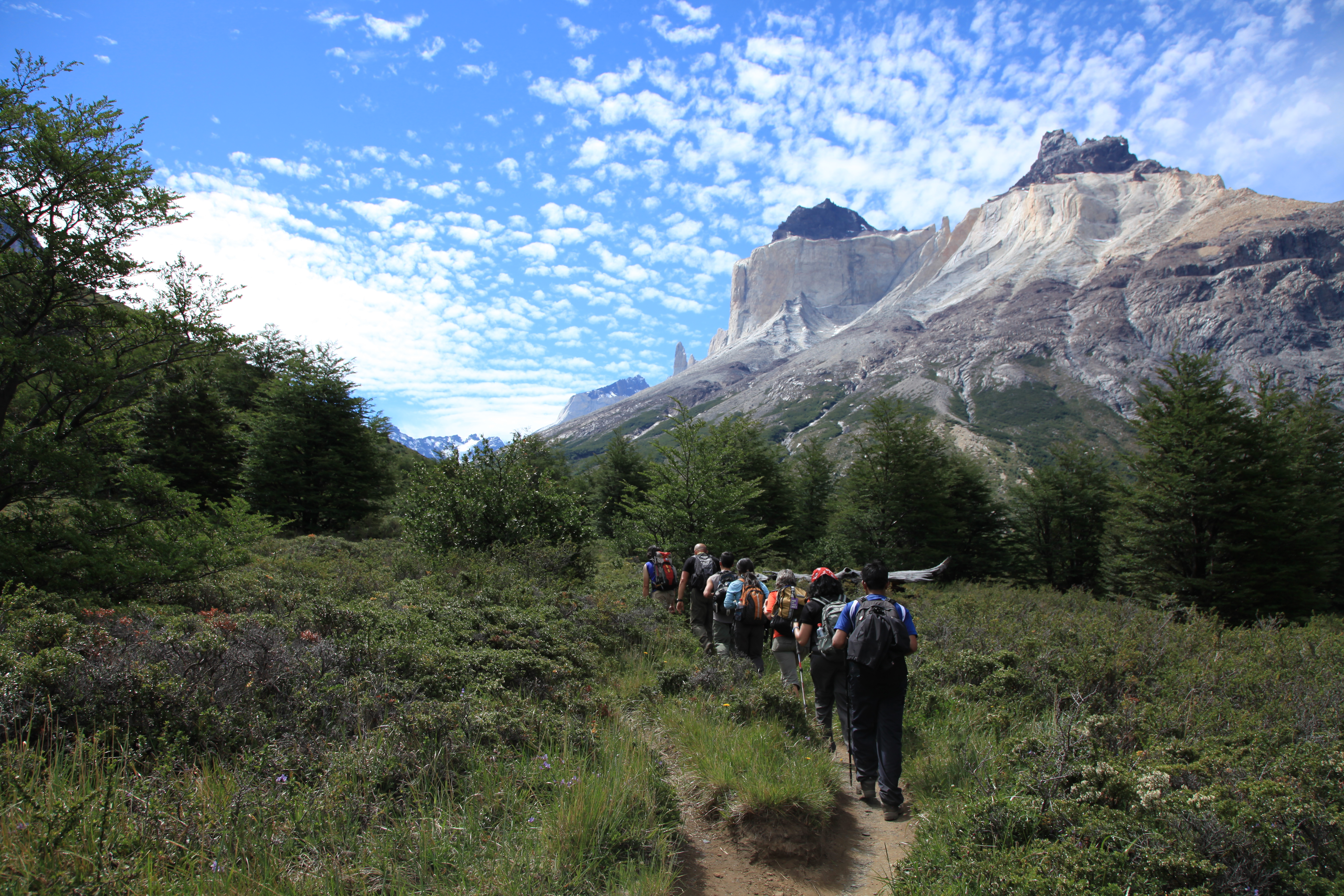 In Torres del Paine National Park, Chile.